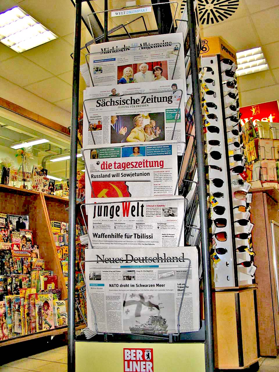 headlines of german dailies - the day after Abkhazia and South Ossetia had 'broken away' from Georgia (Berlin,27th August 2008)